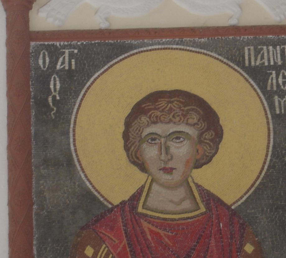 Saint Panteleimon, from a church in Korinos, Pieria.